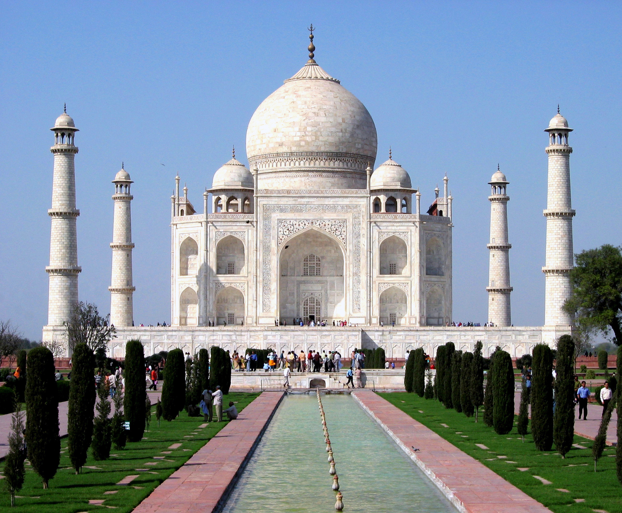 Taj Mahal, Agra, India.